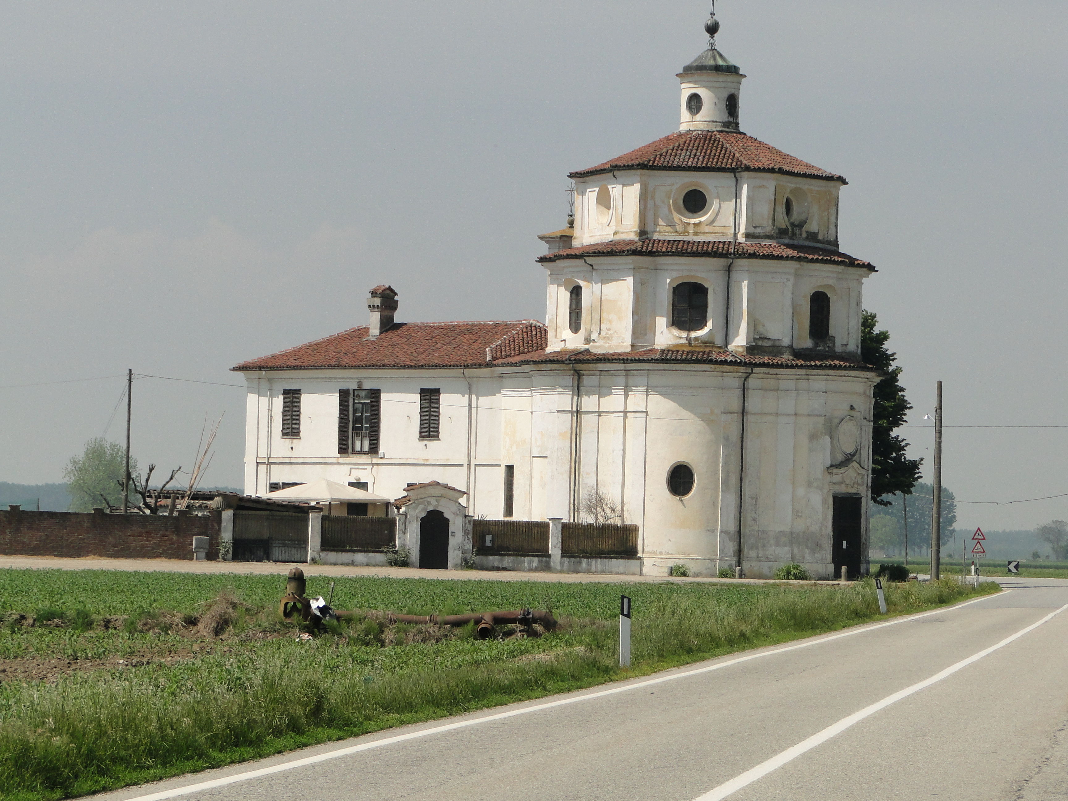 Shrine of Visitation at Vallinotto (Carignano (TO)- Italy) by Bernardo Antonio Vittone